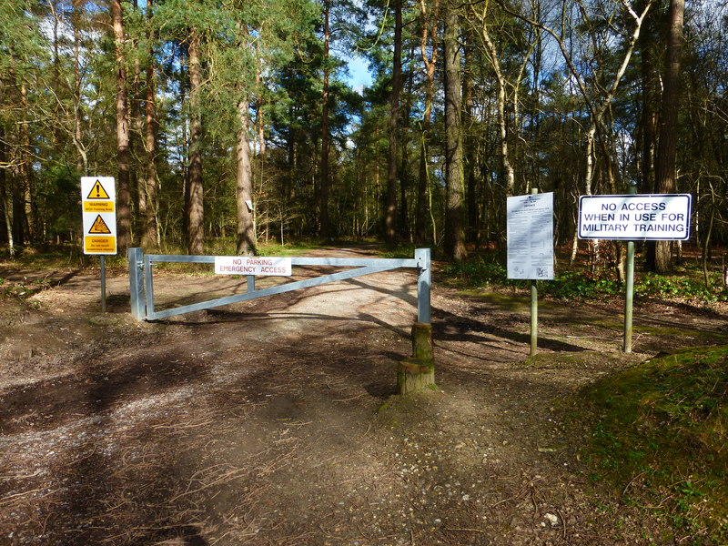 Track goes east from road between Fleet and Southwood